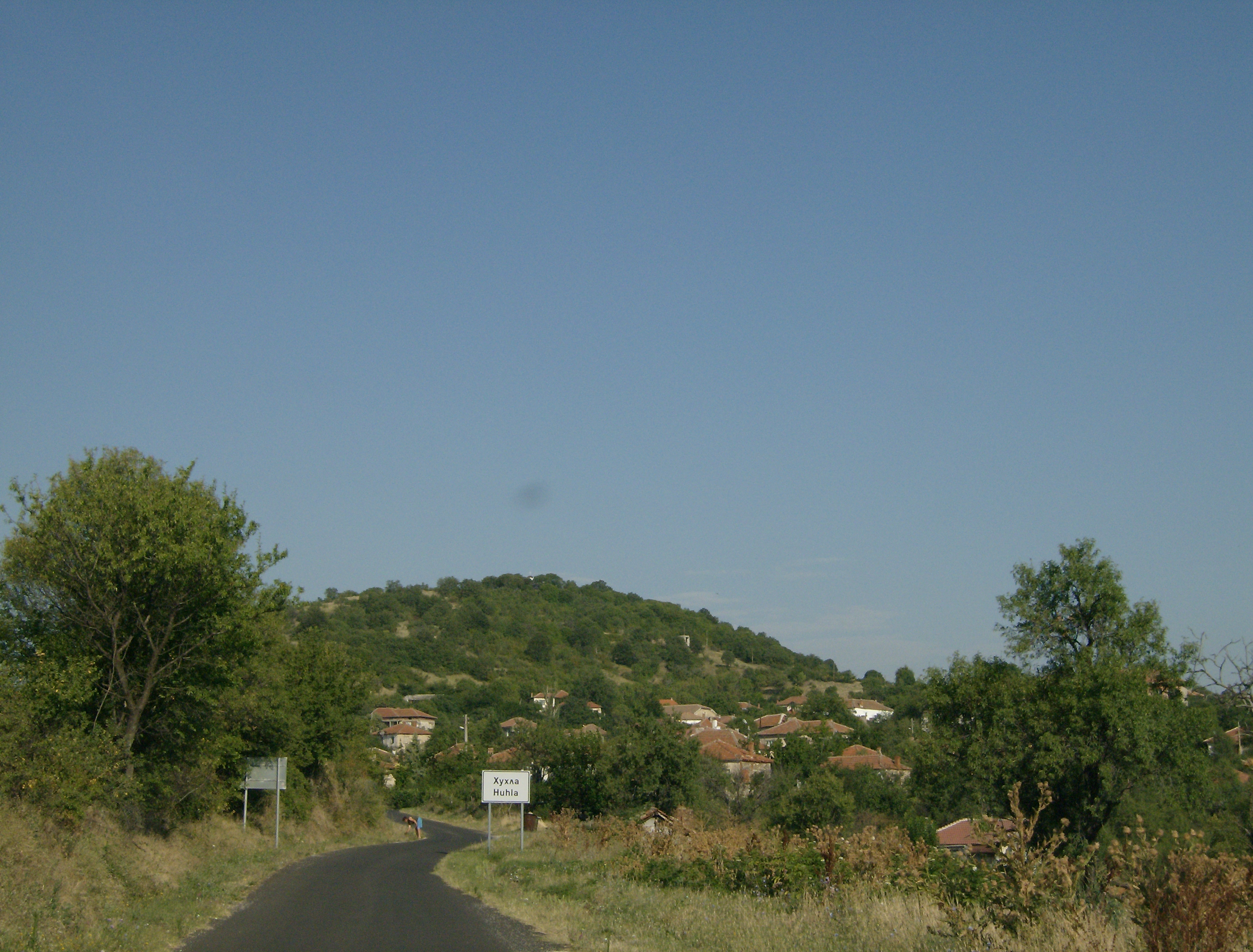 Huhla